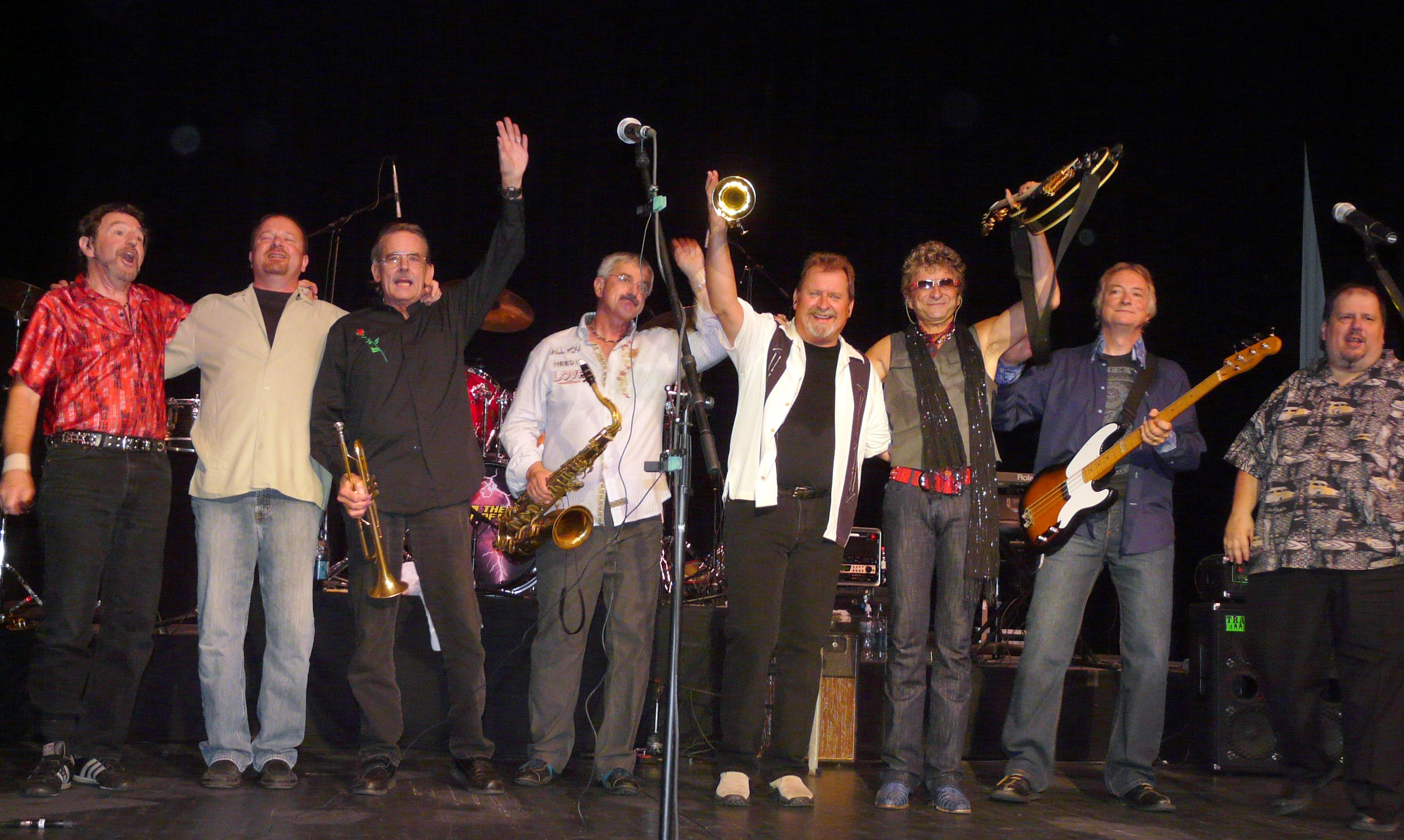 Jazz-rock group: The Ides of March. 2008.